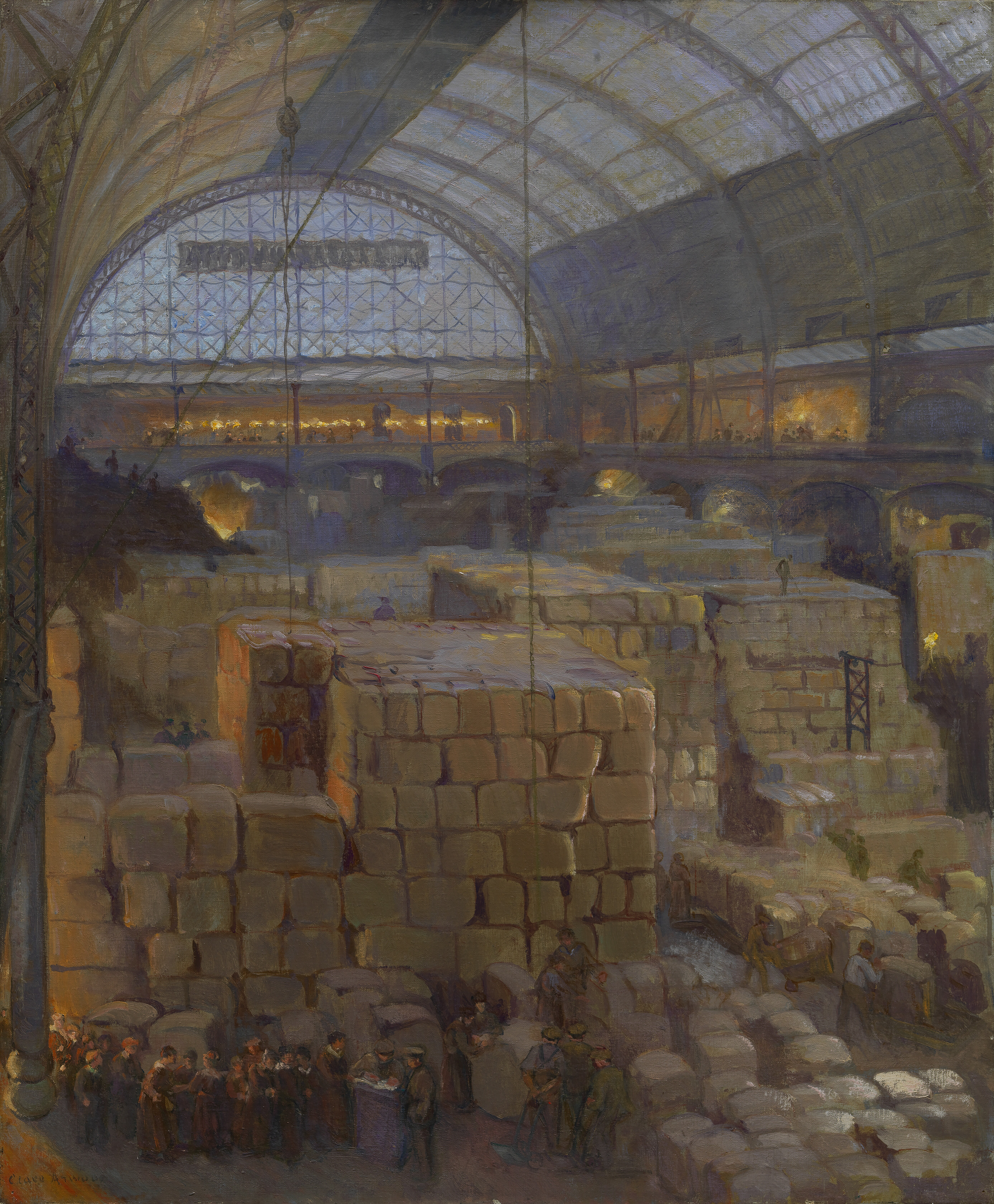 Olympia in War Time - Royal Army Clothing Depot image: The interior of Kensington Olympia, filled with enormous stacks of material bundled as cubes. In the lower foreground workers line up in front of a lectern where two officers are consulting some paperwork. Other workers and soldiers are busy to the right. Above the huge arched ceiling is visible.